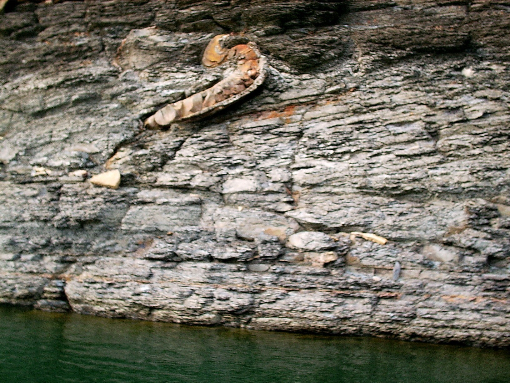 A picture I took of geodes in an unusual rock formation on Lake Cumberland probably in Russell County, Kentucky (as a fishing tourist I'm not sure of the precise location).